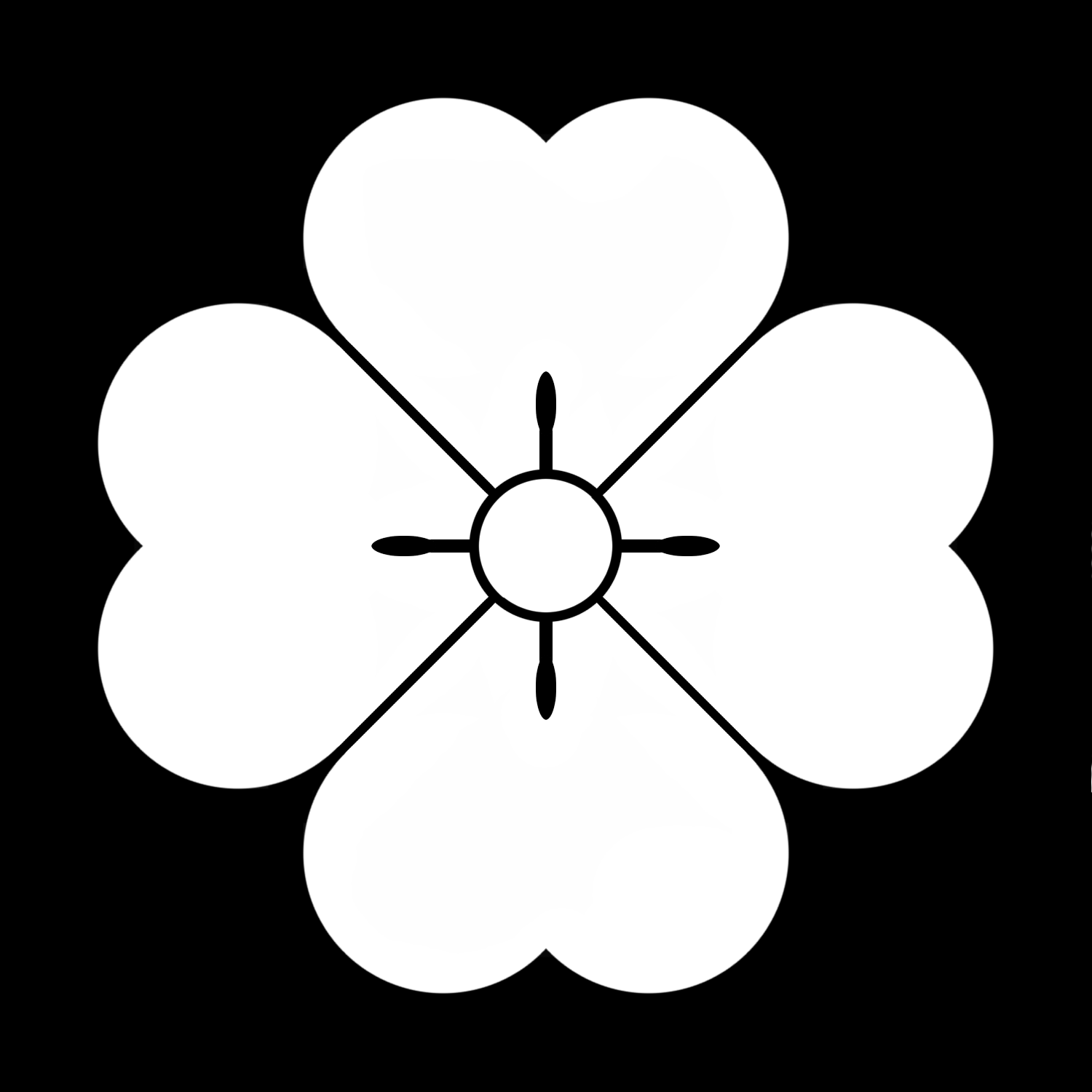 "European water clover", i.e. Marsilea quadrifolia